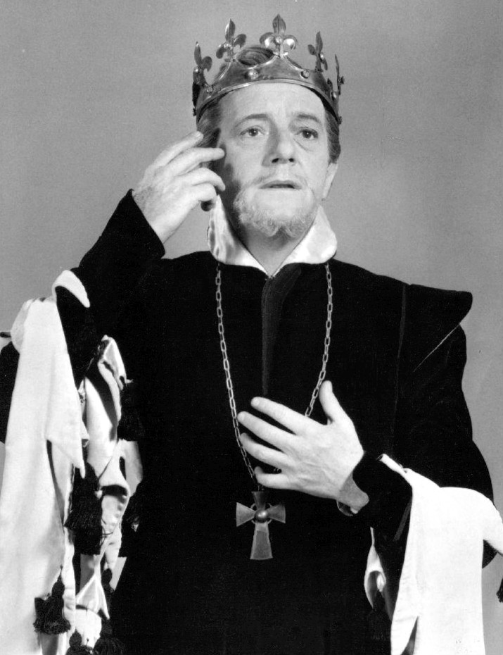 Photo of Maurice Evans as Richard II from a Hallmark Hall of Fame presentation.